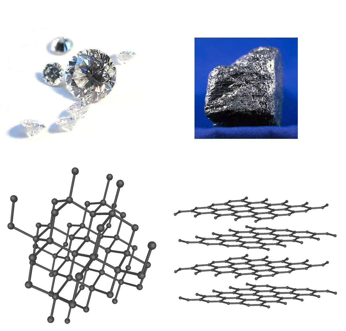 Diamond and graphite samples with their respective structures. The bottom right formation of carbon is what is known as "graphene," characterized by infinite, single atom sheets of carbon.